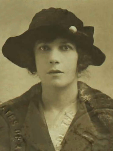 Vivienne Haigh-Wood Eliot U.S. passport photo